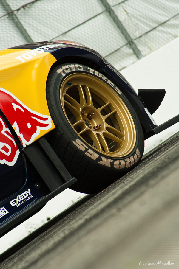 Formula Drift - Round 1 - Streets of Long Beach.